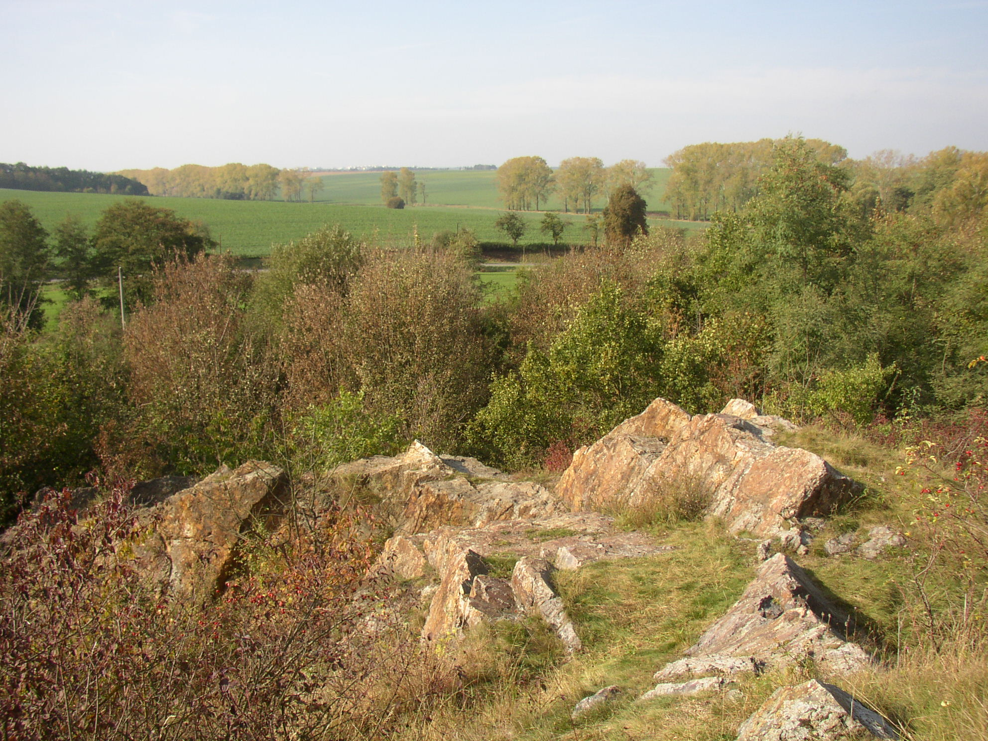 Žákova skála (a geological and paleontological site) near Běloky, Kladno District, Czech Republic. A view from te rock towards WNW.